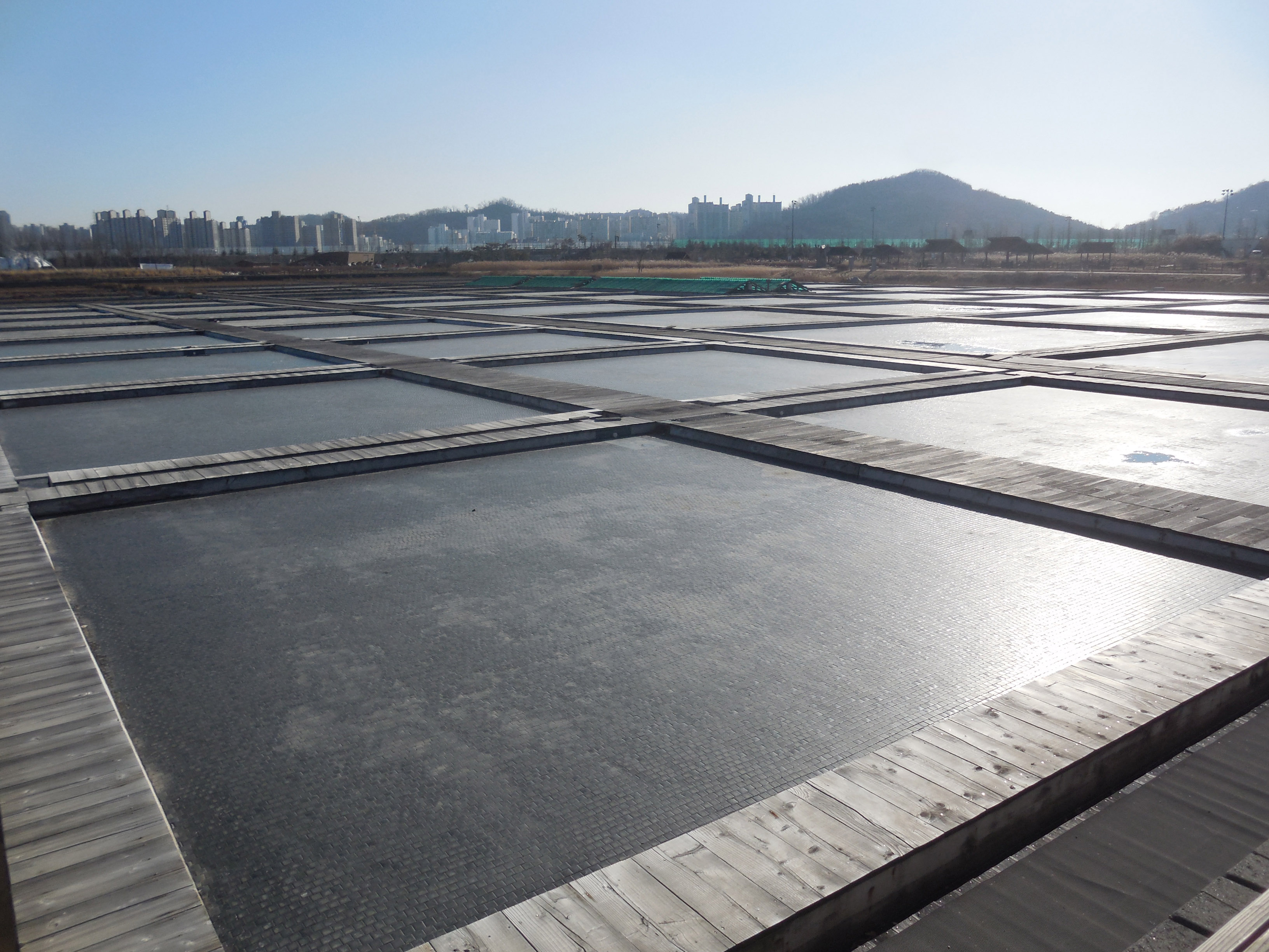 Restored crystallizing pond of Sorae Salt Field with tile ground.